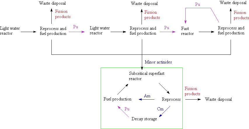 A hypothetical nuclear fuel cycle in which the minor actinides have been separated and used separatly from the uranium and plutonium.